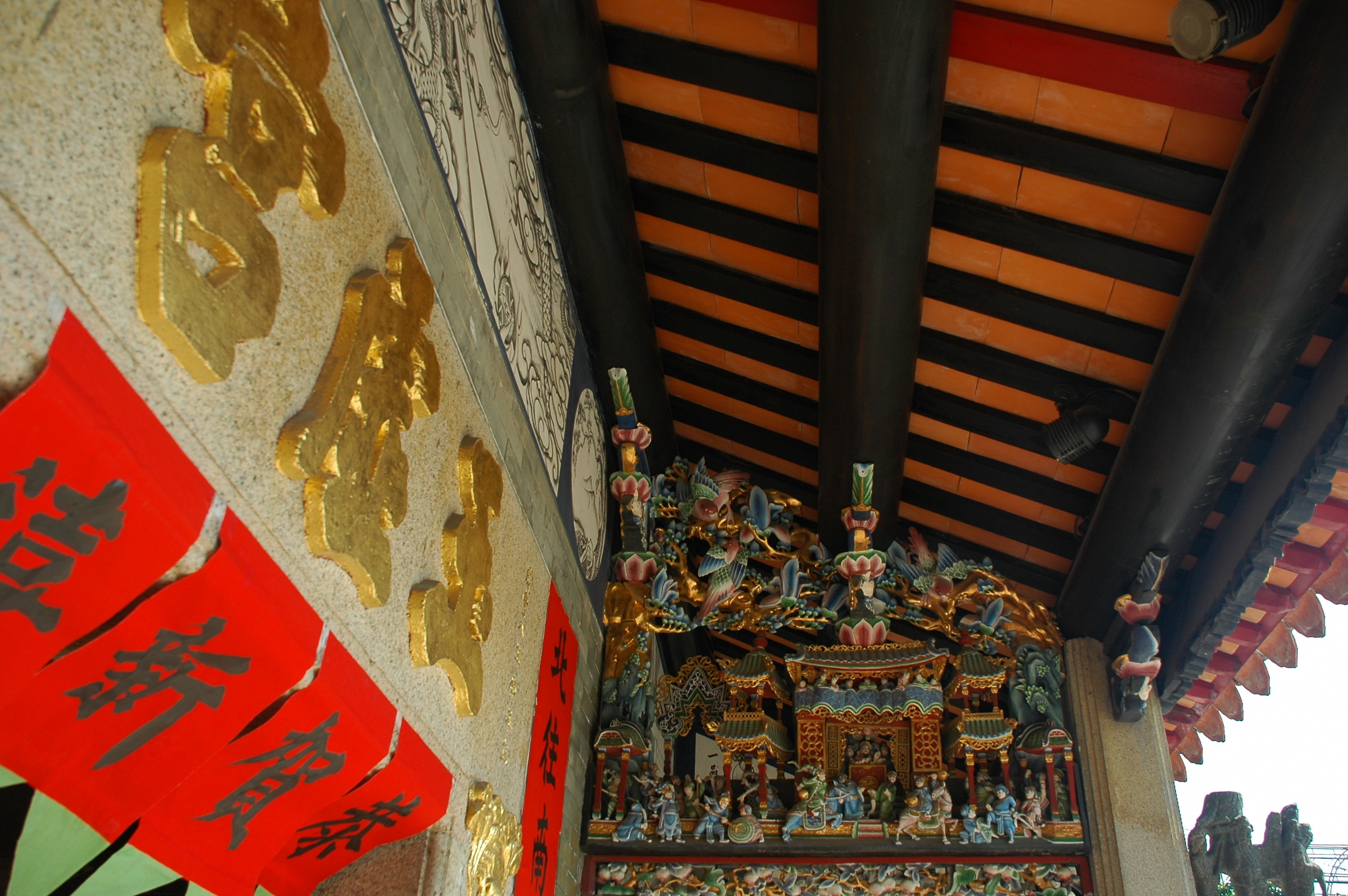 Yuk Hui Temple, Cheung Chau, Hong Kong.